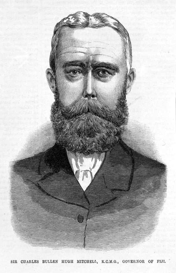 Title: Sir Charles Bullen Hugh Mitchell, K.C.M.G., governor of Fiji [picture] Publisher: Melbourne : Alfred Martin Ebsworth Date(s): December 2, 1886 Description: print : wood engraving. Identifier(s): Accession no(s) A/S02/12/86/181 Subjects: Governors -- Fiji ; Portraits ; Wood engravings Notes: Print published in the Australasian sketcher with pen and pencil. Title printed below image. Contents/Summary: Bust, full beard, to the front. Related works: Series: Illustrated newspaper file. Australasian sketcher.